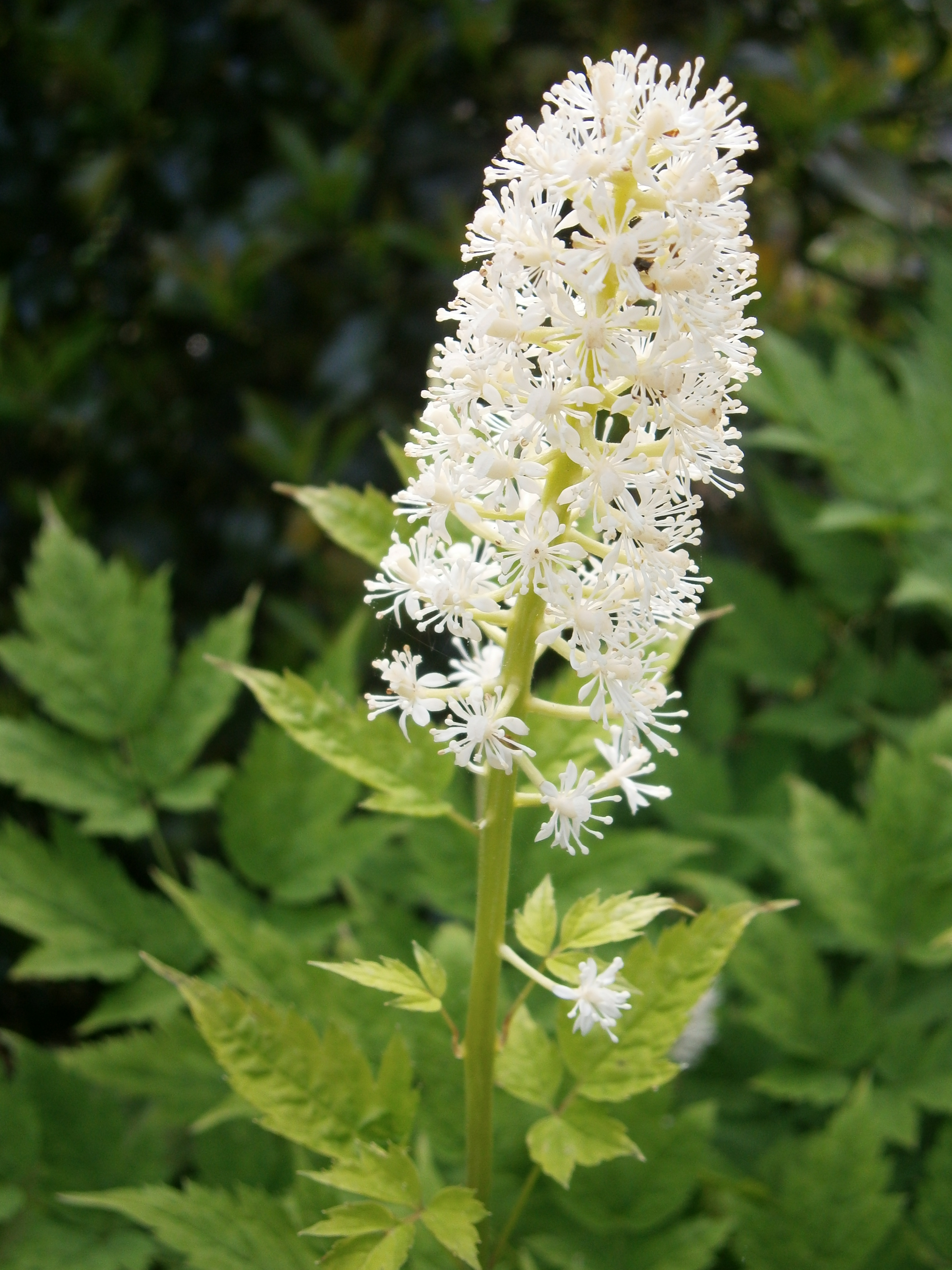 Actaea pachypoda close-up